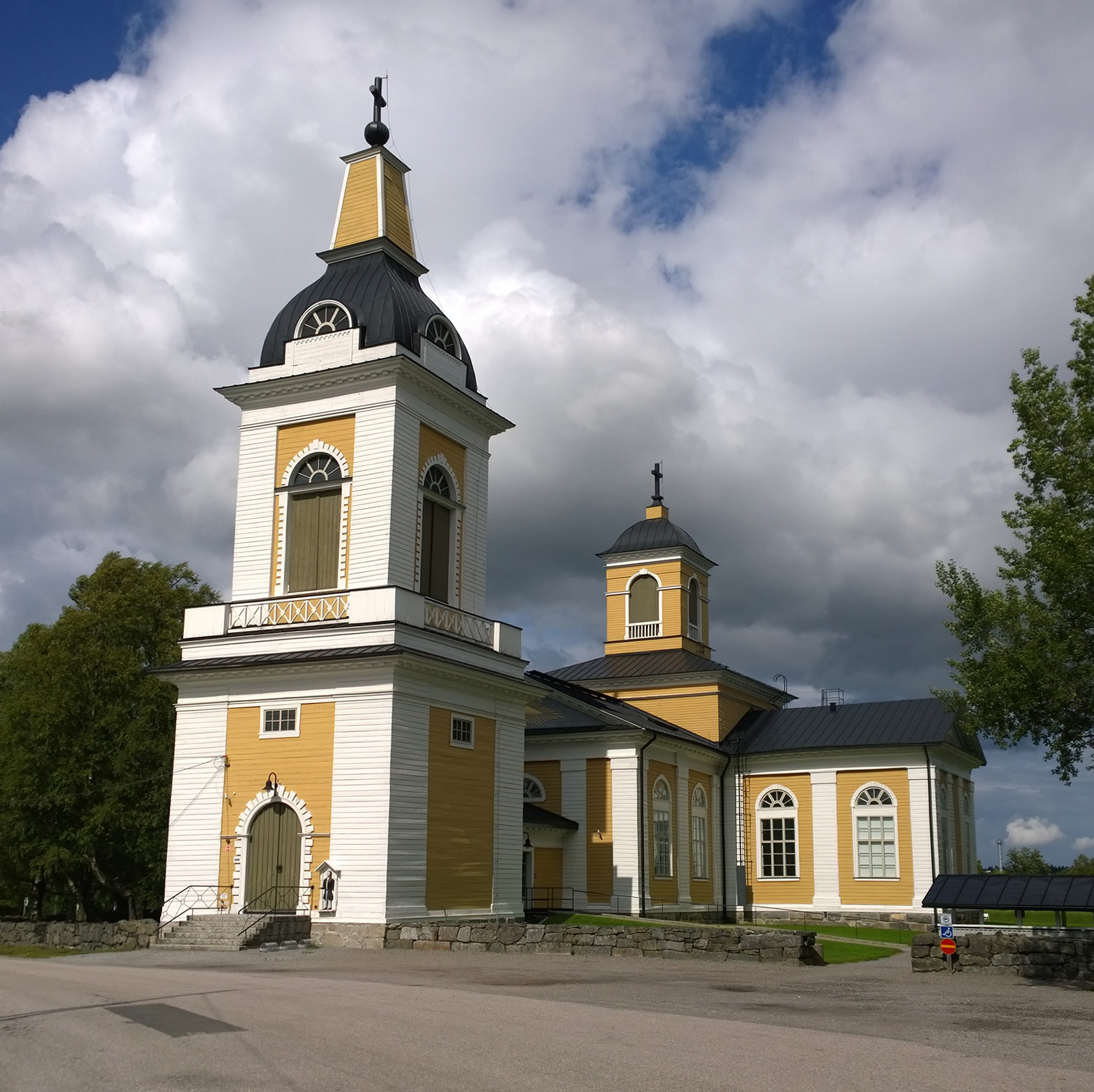 Malax church